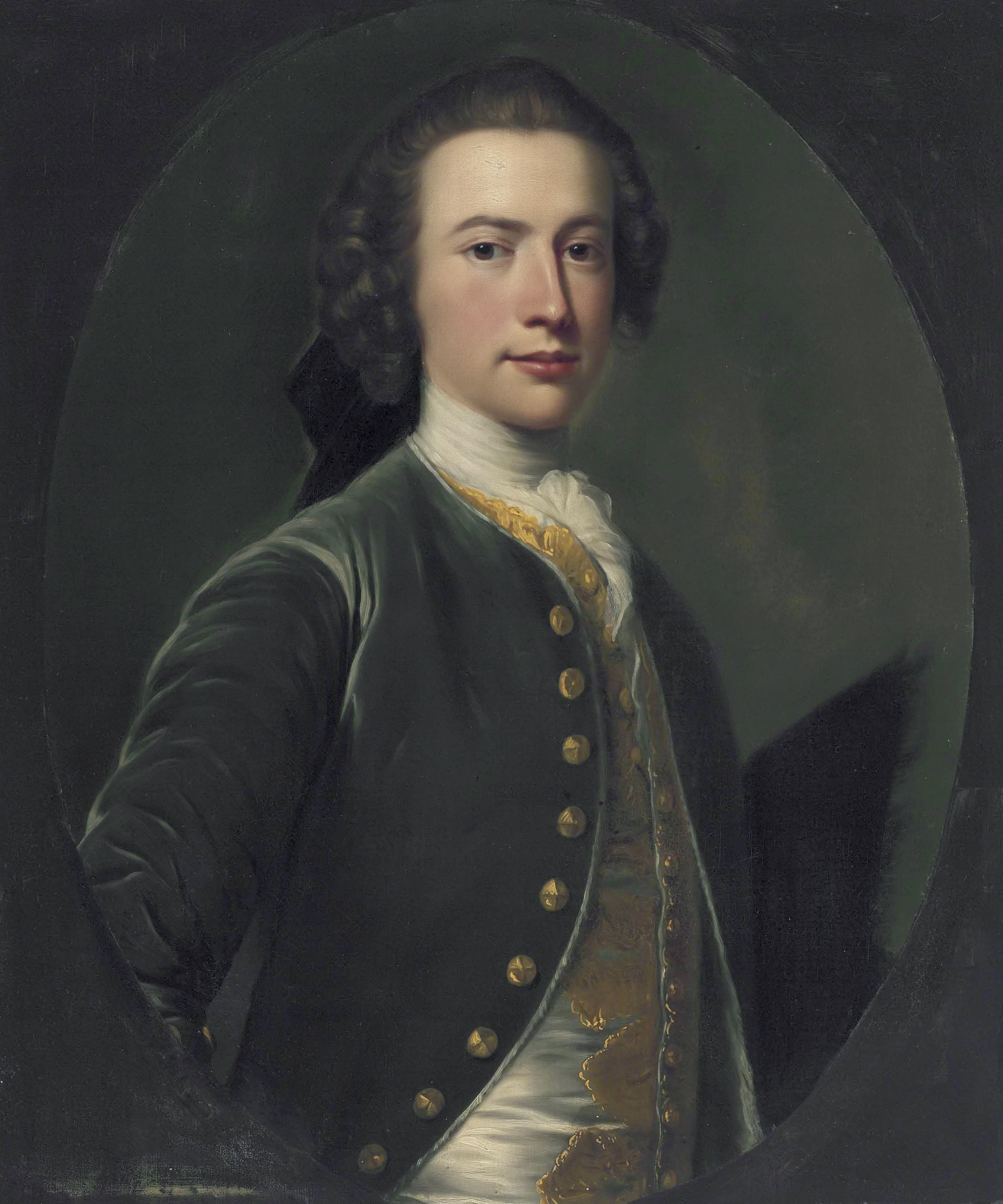 Valentine Morris (1727-1789), Governor of Saint Vincent oil on canvas 76.5 x 63.8 cm